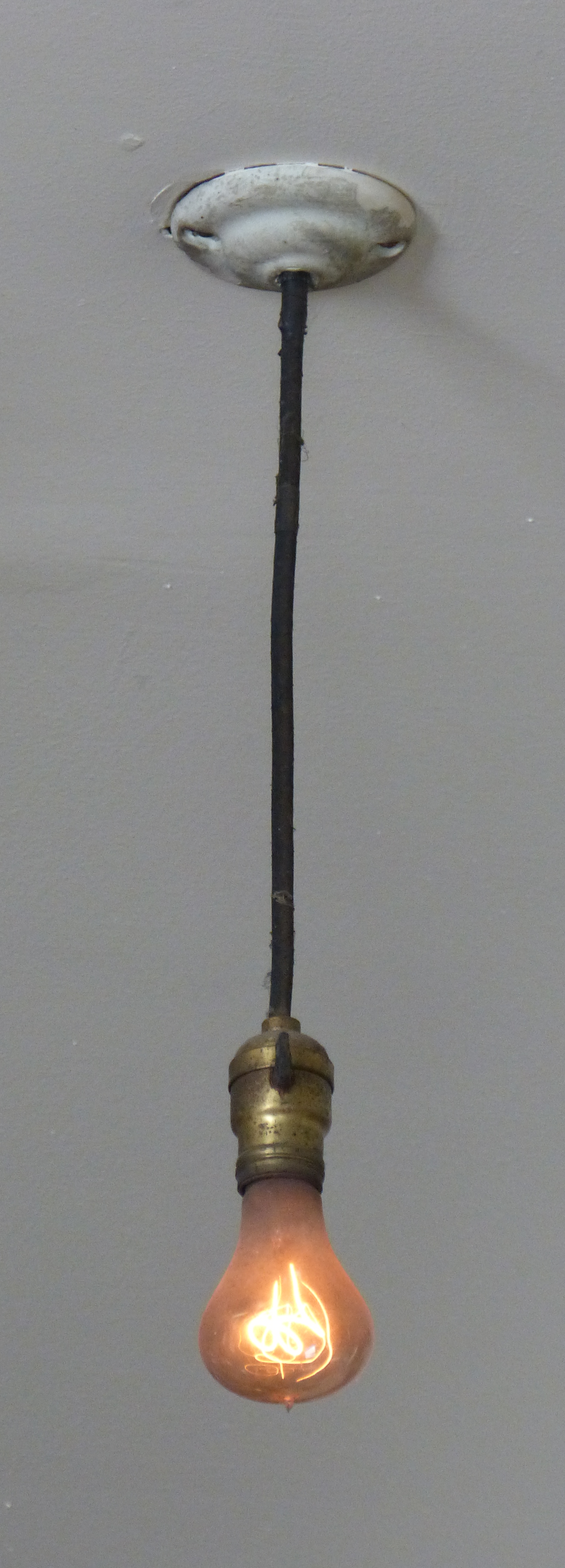 A photo of the pendant light in which the Centennial Light Bulb is installed in Livermore, California in 2016.